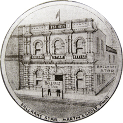 The Ballarat Star newspaper office, Sturt Street, Ballarat, Victoria, Australia, from W. B. Kimberly (1894) Ballarat and Vicinity, F. W. Niven & Co., Ballarat.